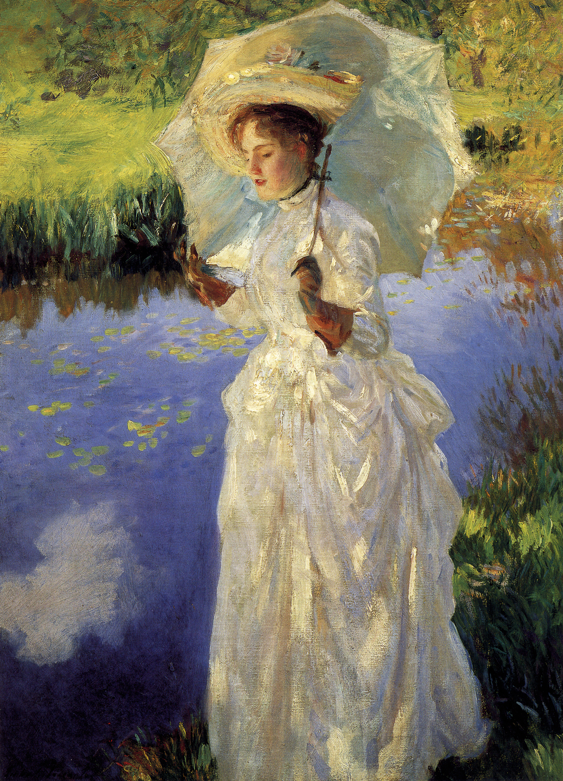 The model is the painter's sister, Violet.